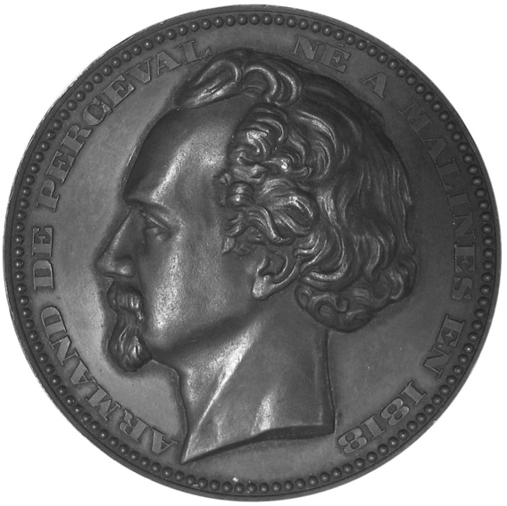 Armand de Perceval (1818-)